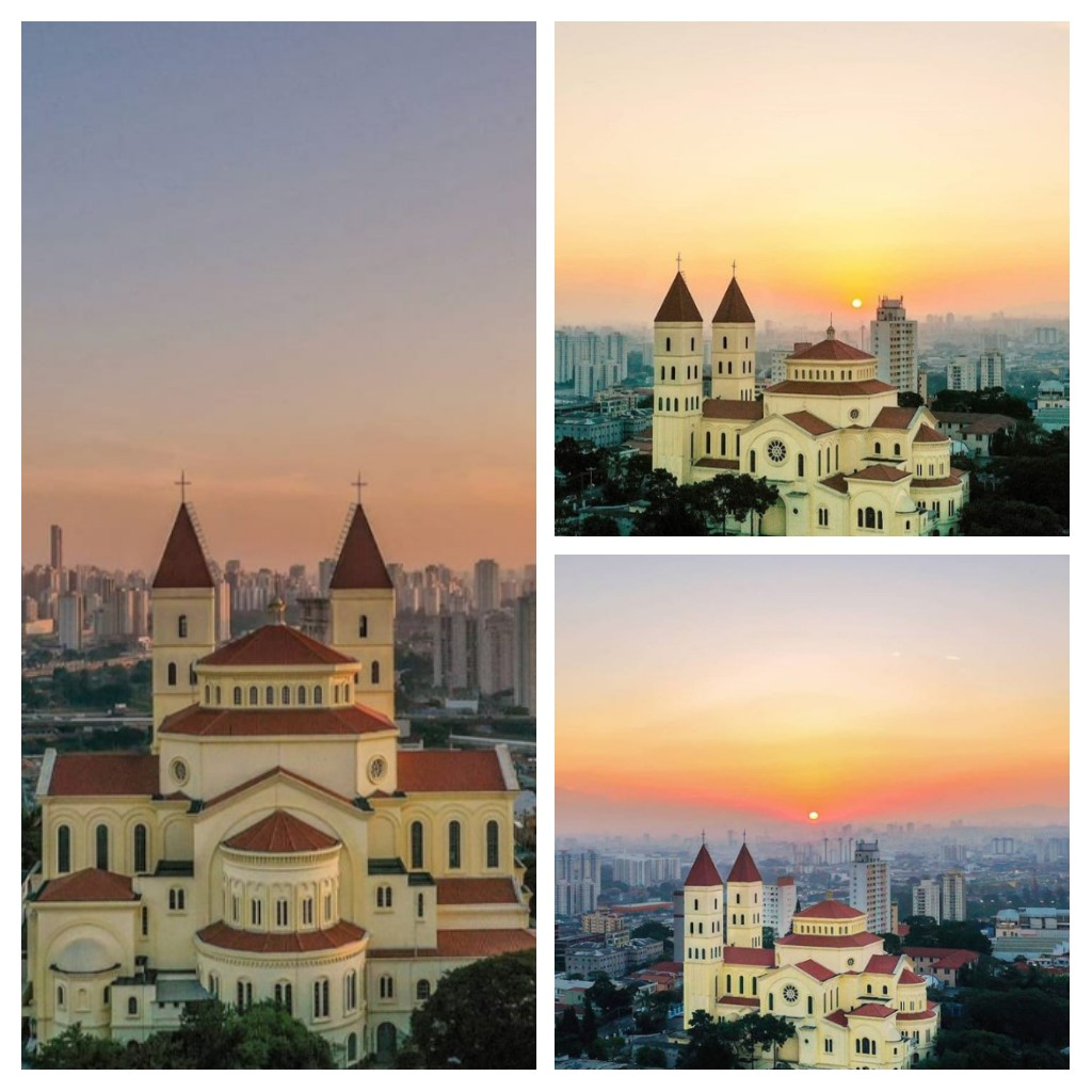 Catedral penha